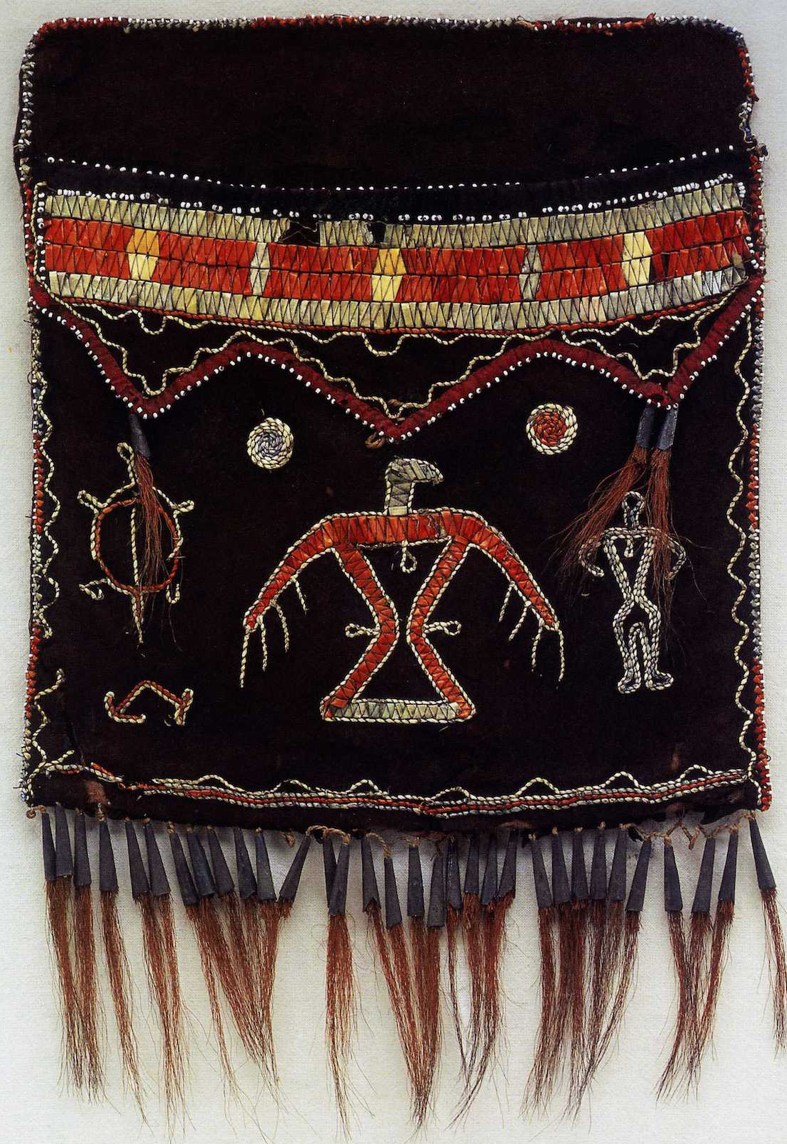 Unrecorded Anishinaabe artist, shoulder bag (without strap) (Anishinaabe, Ojibwa, Ontario, 1820), black-dyed native tanned leather, porcupine quills, tin cones, silk ribbon, dyed hair (courtesy Metropolitan Museum of Art, promised gift of Charles and Valerie Diker, photo by Dirk Bakker)